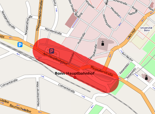 Map highlighting the Bahnhofsvorplatz (square in front of the station) in Bonn, Germany.